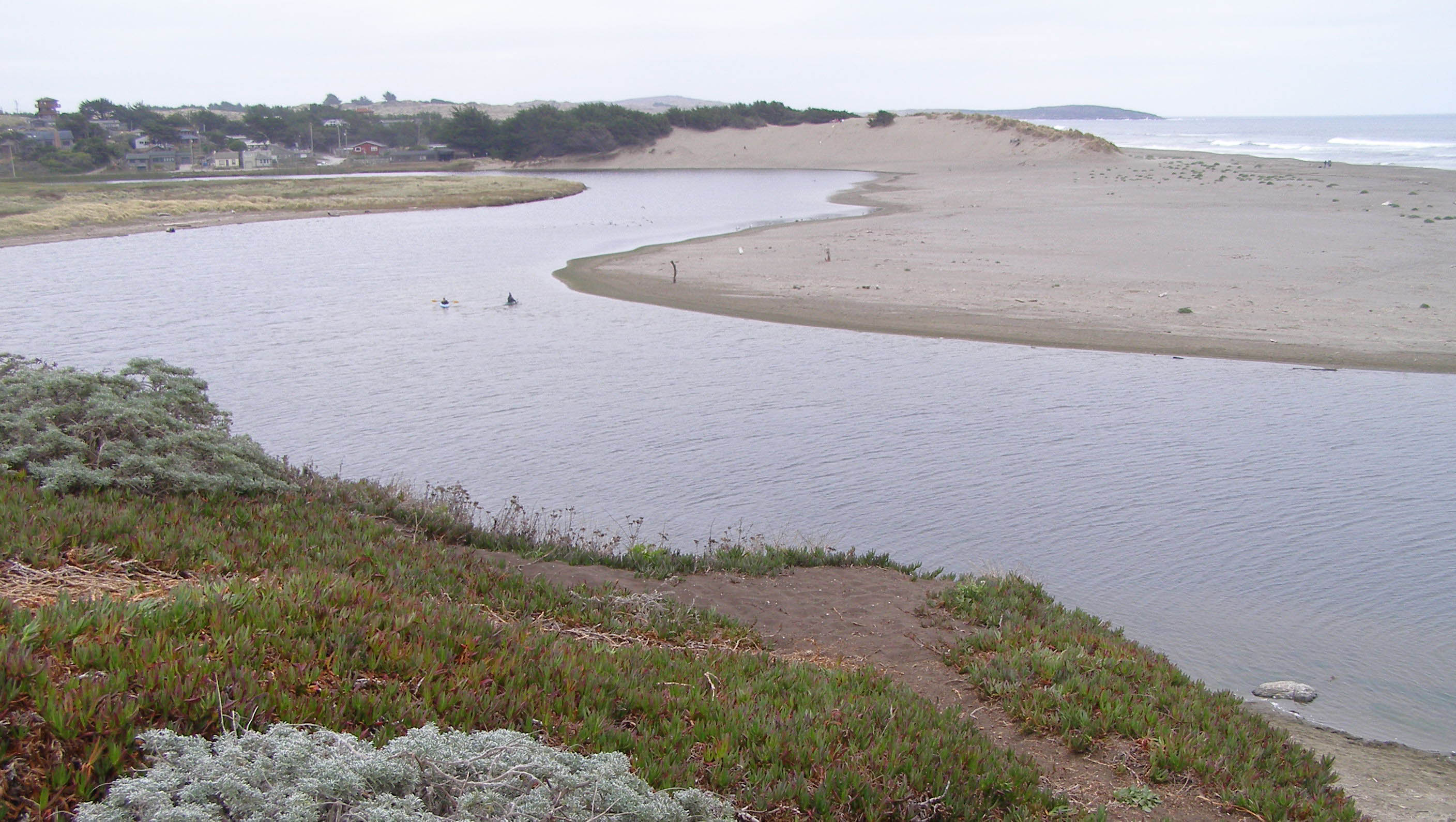 photographer: self